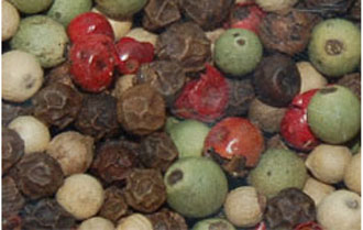 Picture of 4 varieties of peppercorns, black, white, green and pink. Photo by M Schroebel